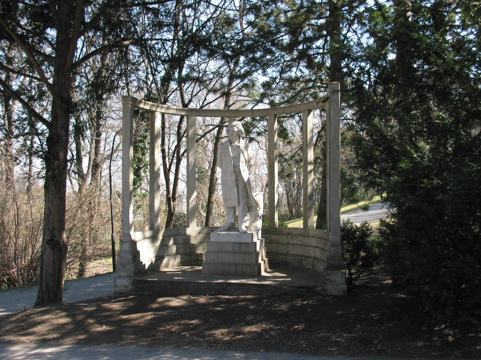 Statue of Ludwig van Beethoven, Heiligenstädter Park, Vienna